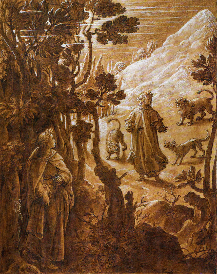 Illustration of Dante's Inferno, Canto 1